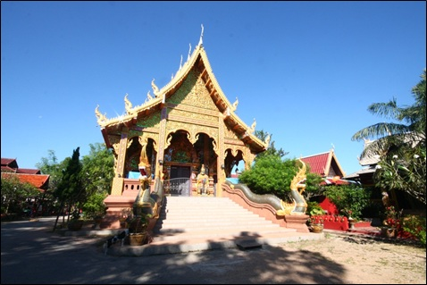 Wat Payang or Wat Sanphrajaodang, Ban Payang, Tambon Huai Yap, Ban Thi District, Lamphun Province, Thailand.